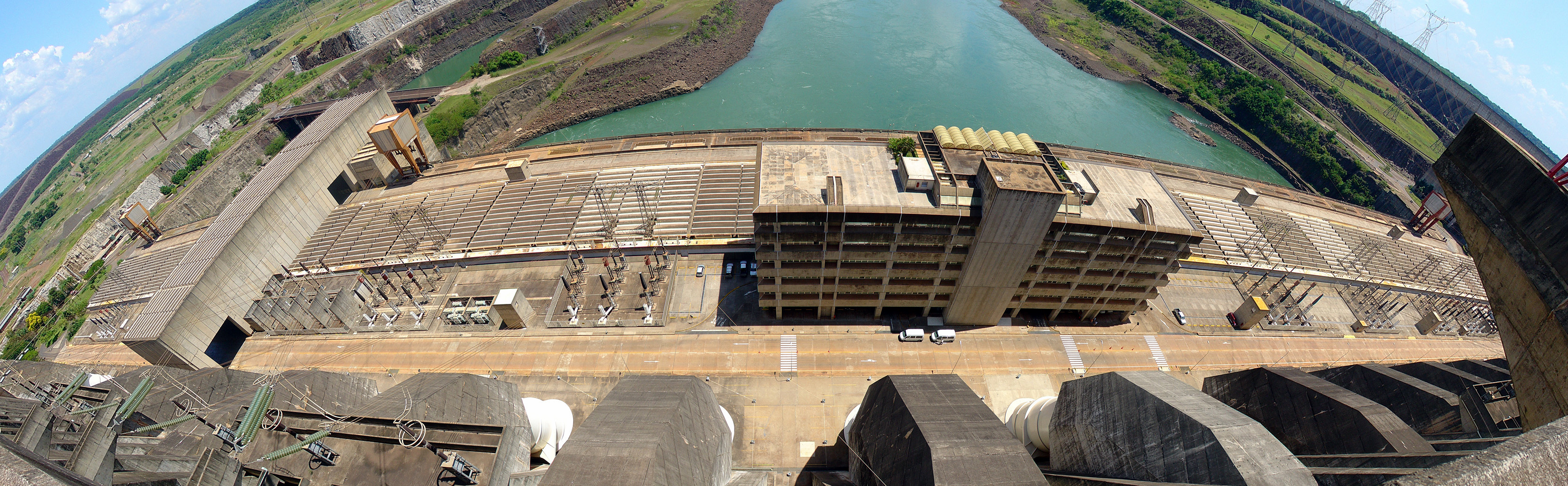 Please, have this description accessible to all by translating it in different languages.